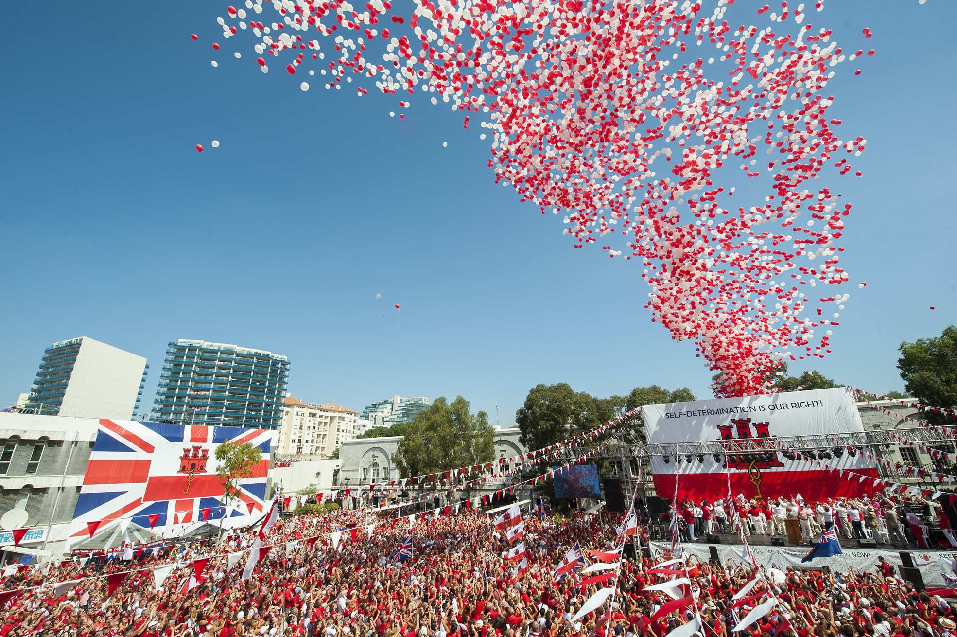 Gibraltar National Day_026